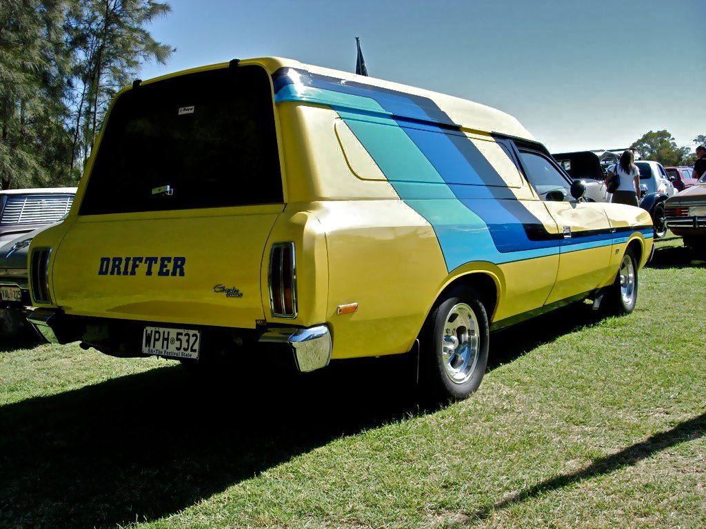 Chrysler CL Drifter panel van with distinctive stripe work.